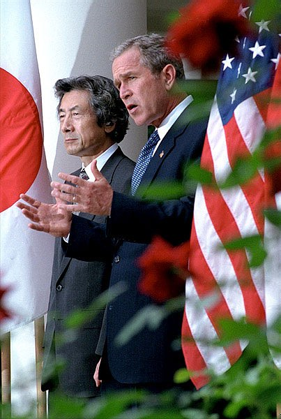 American President George W. Bush and Japanese Prime Minister Junichiro Koizumi make a joint statement pledging to support each other in the fight against global terrorism during press conference in the Rose Garden September 25, 2001.